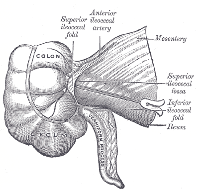 Superior ileocecal fossa. (Poirier and Charpy.)